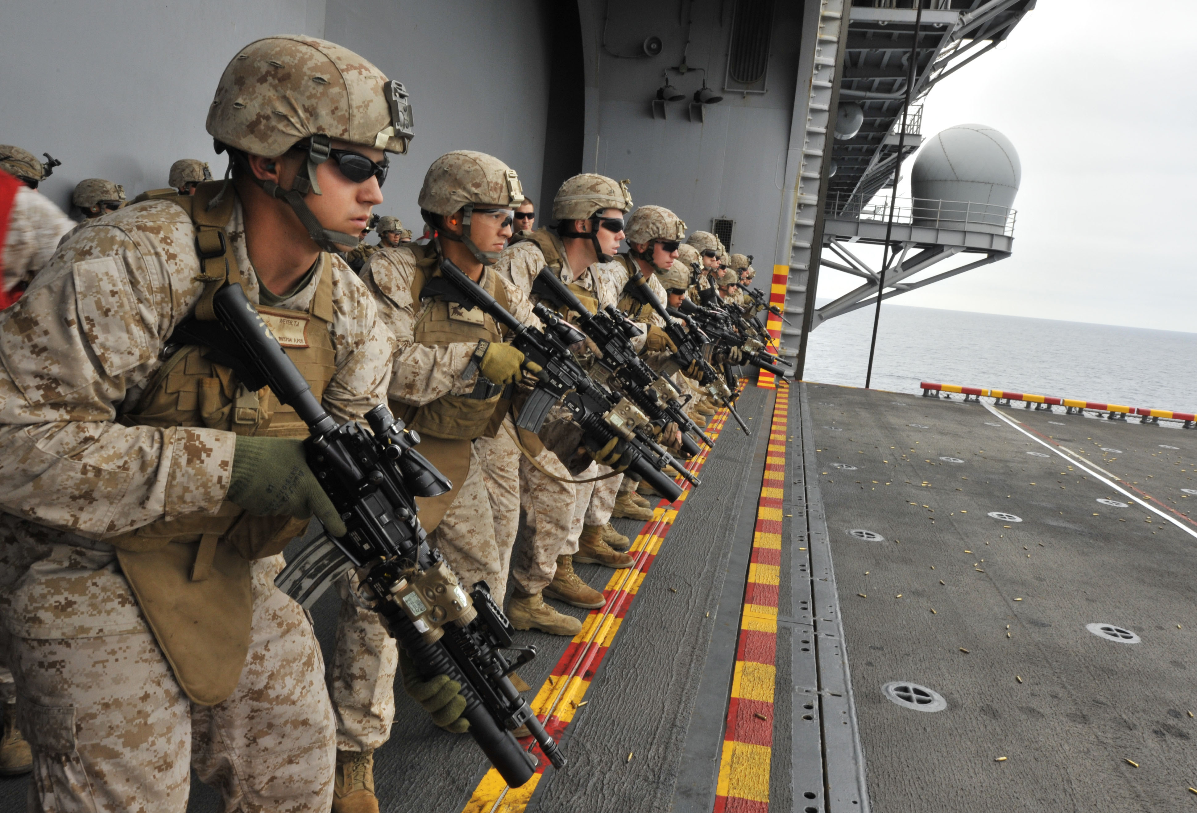 PACIFIC OCEAN (Sept. 10, 2011) Marines assigned to the 11th Marine Expeditionary Unit (11th MEU) participate in a live-fire exercise aboard the amphibious assault ship USS Makin Island (LHD 8). The Makin Island Amphibious Ready Group is conducting a composite training unit exercise (COMPTUEX) off the coast of Southern California. COMPTUEX is a training exercise designed to test capabilities and ensure overall readiness before deployment. (U.S. Navy photo by Mass Communication Specialist 2nd Class Jason Behnke/Released)